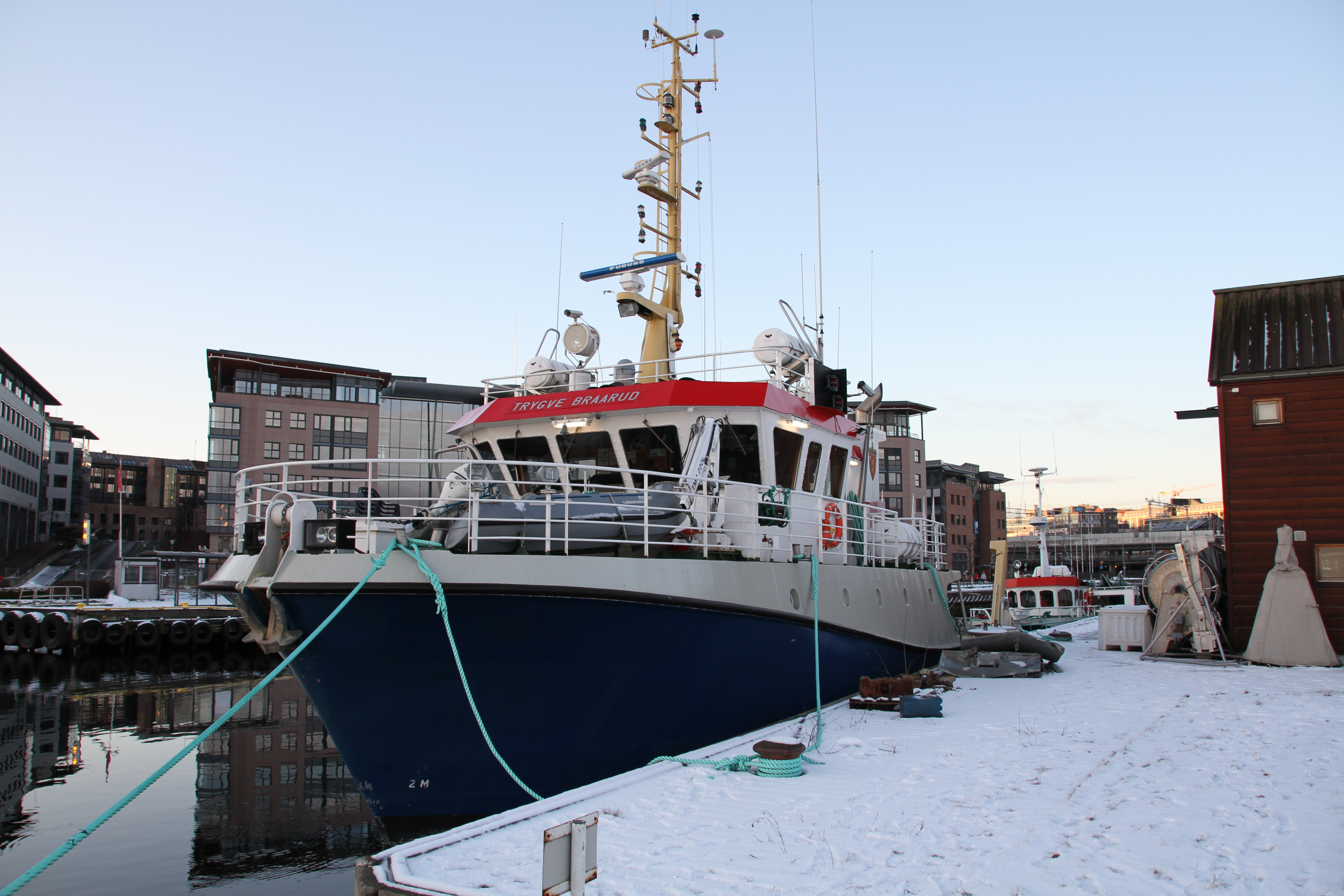 University of Oslo research vessel, at anchor in the Lysakerelva river - Oslo (Norway). This is R/V Trygve Braarud.